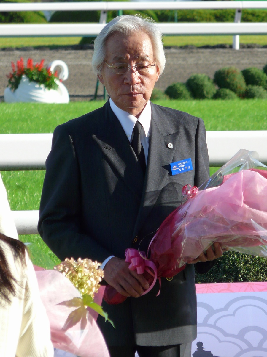 Yoshio-Matsumoto20101010